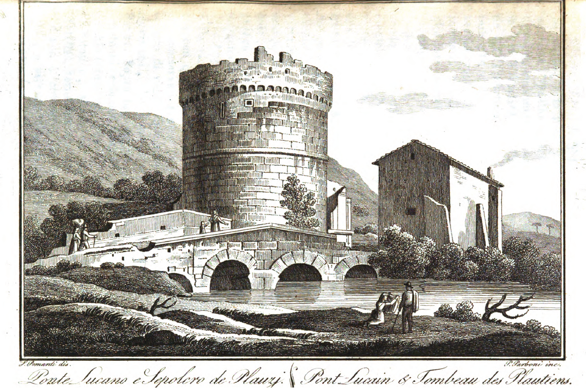 Mausoleo di Plautio, stampa del 1819